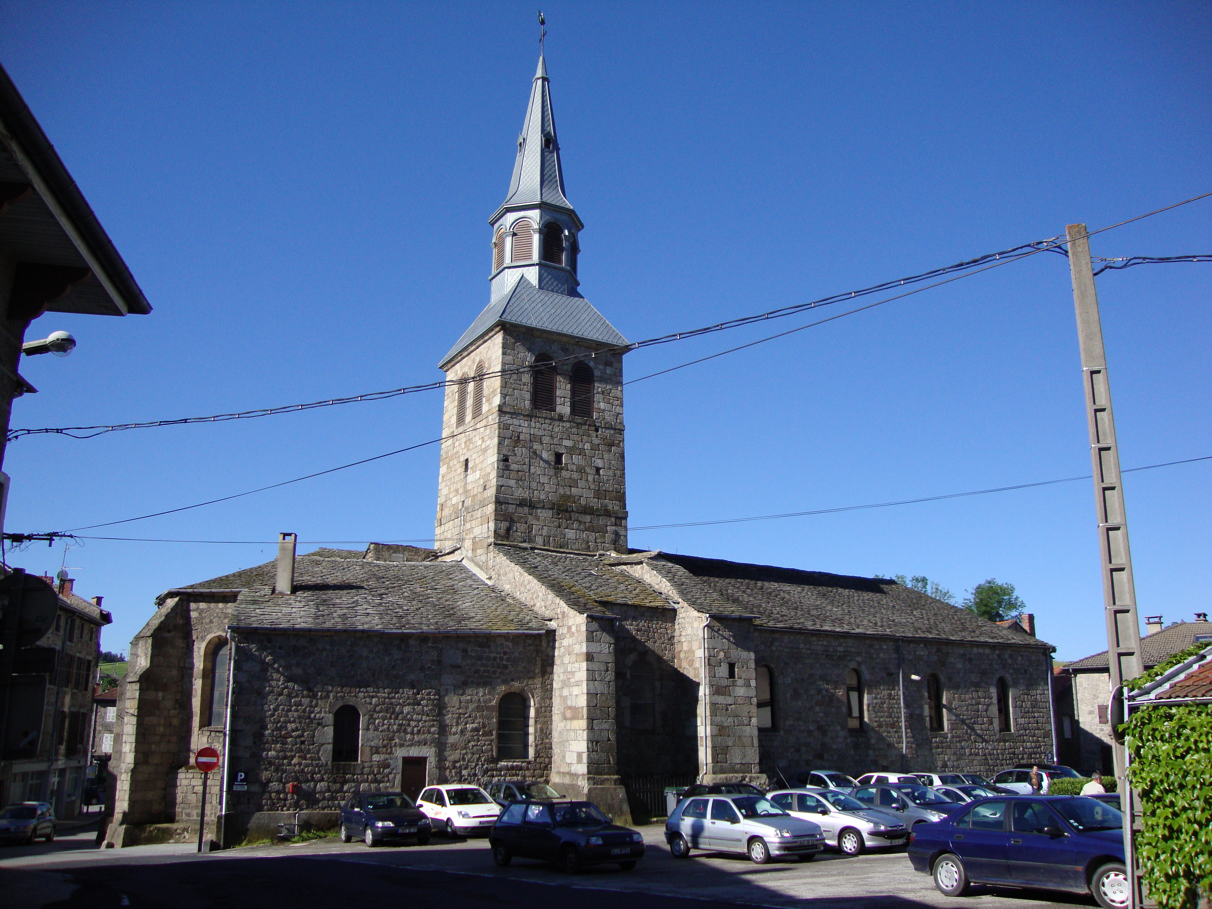 Tence (Haute-Loire, Fr) Saint Martin church.